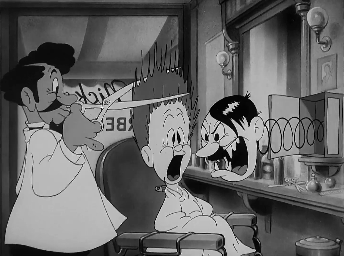 A scene of a Jack-in-the-Box Hitler in "Nutty News".